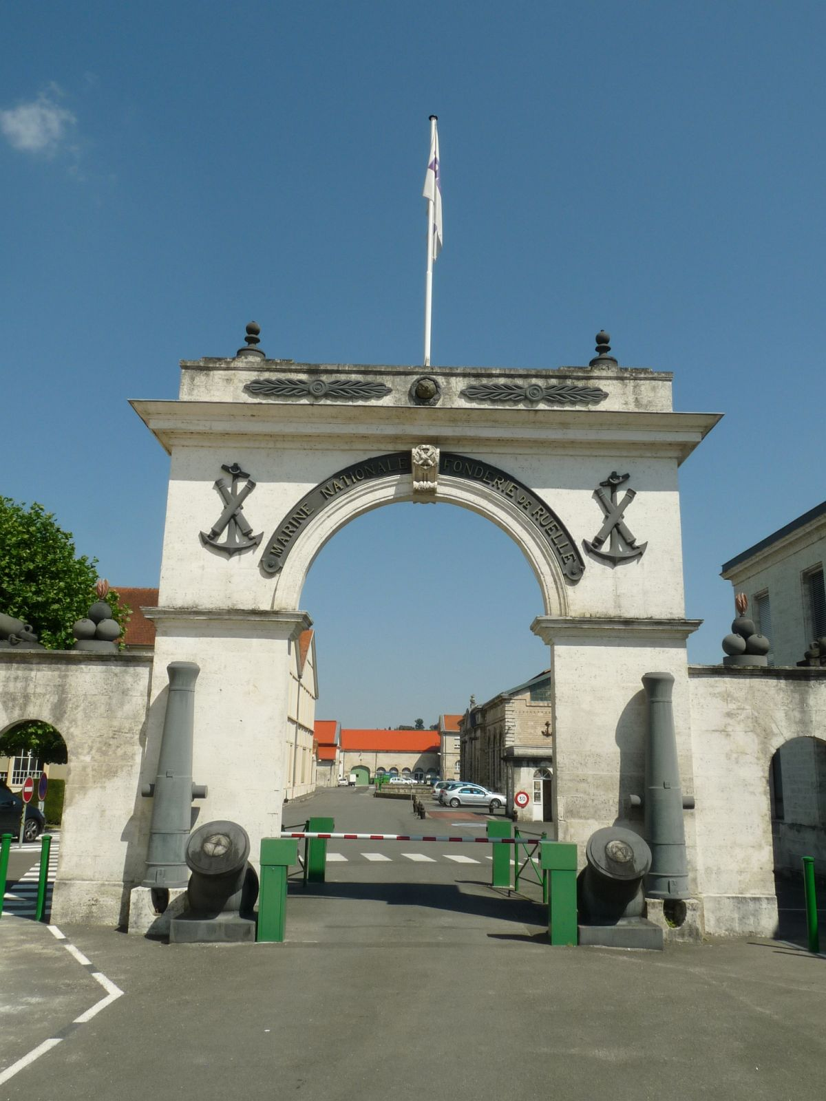 Cannon foundry of Ruelle, Charente, SW France. Main entrance